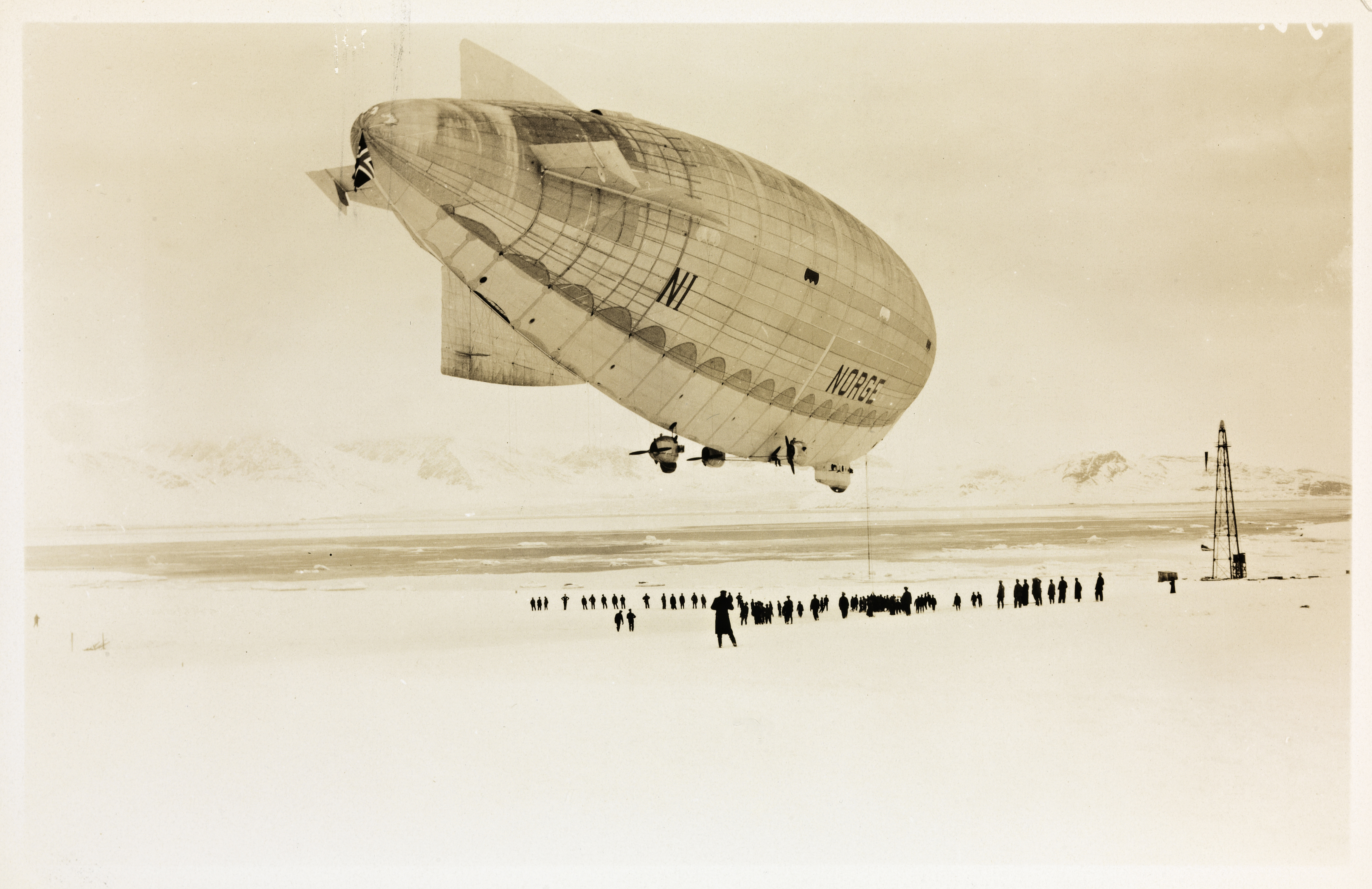 Tittel / Title: Luftskipet "Norge" ved fortøyningsmasten i Ny-Ålesund Beskrivelse / Description: Gelatin papirpositiv. Dato / Date: mai 1926 Fotograf / Photographer: ukjent / unknown Sted / Place: Svalbard, Ny-Ålesund Eier / Owner Institution: Nasjonalbiblioteket / National Library of Norway Lenke / Link: Bildesignatur / Image Number: bldsa_FMRA0201